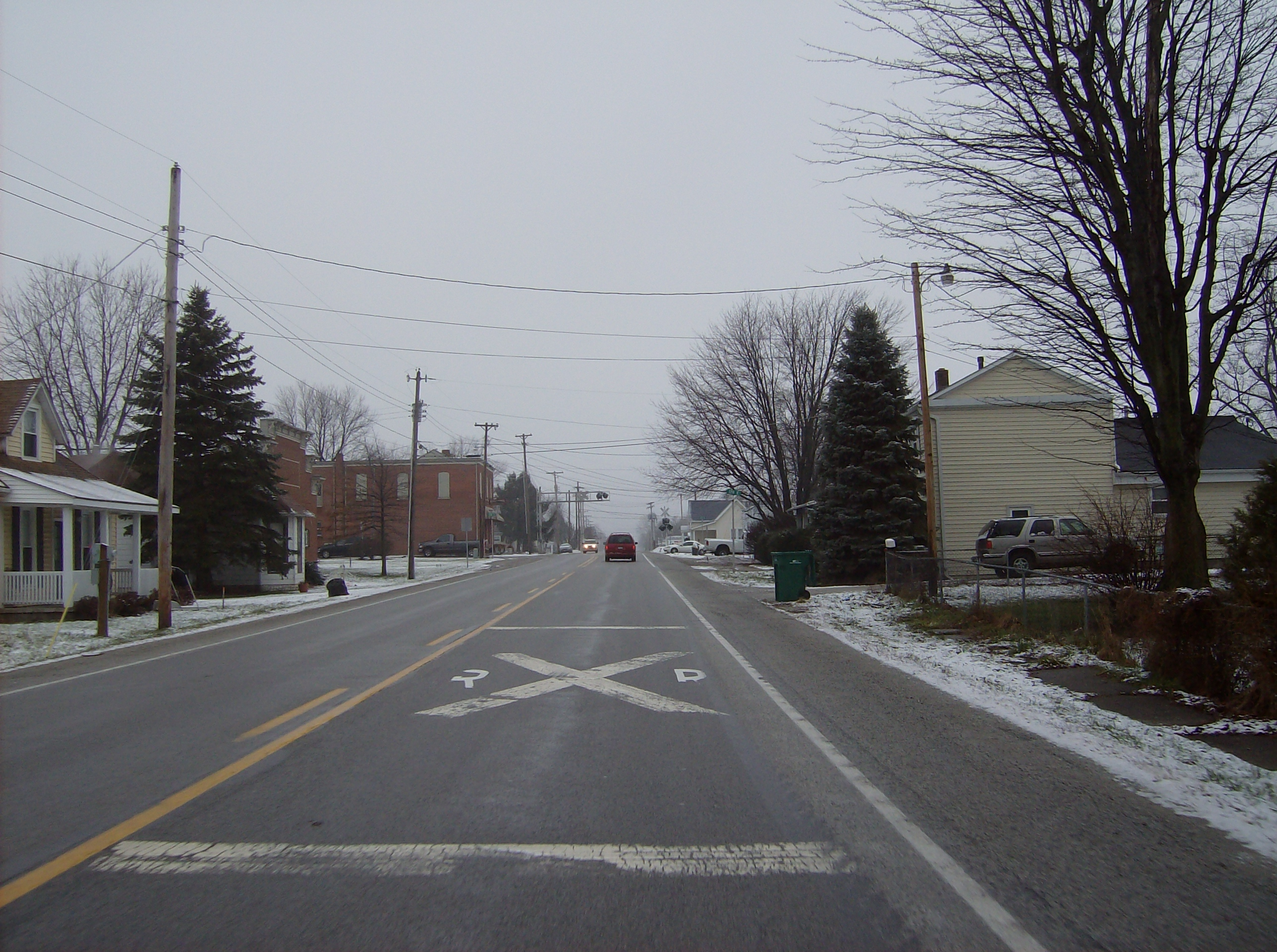 Approaching the railroad crossing along westbound State Road 26 in central Oakford, an unincorporated community in southwestern Taylor Township, Howard County, Indiana, United States.